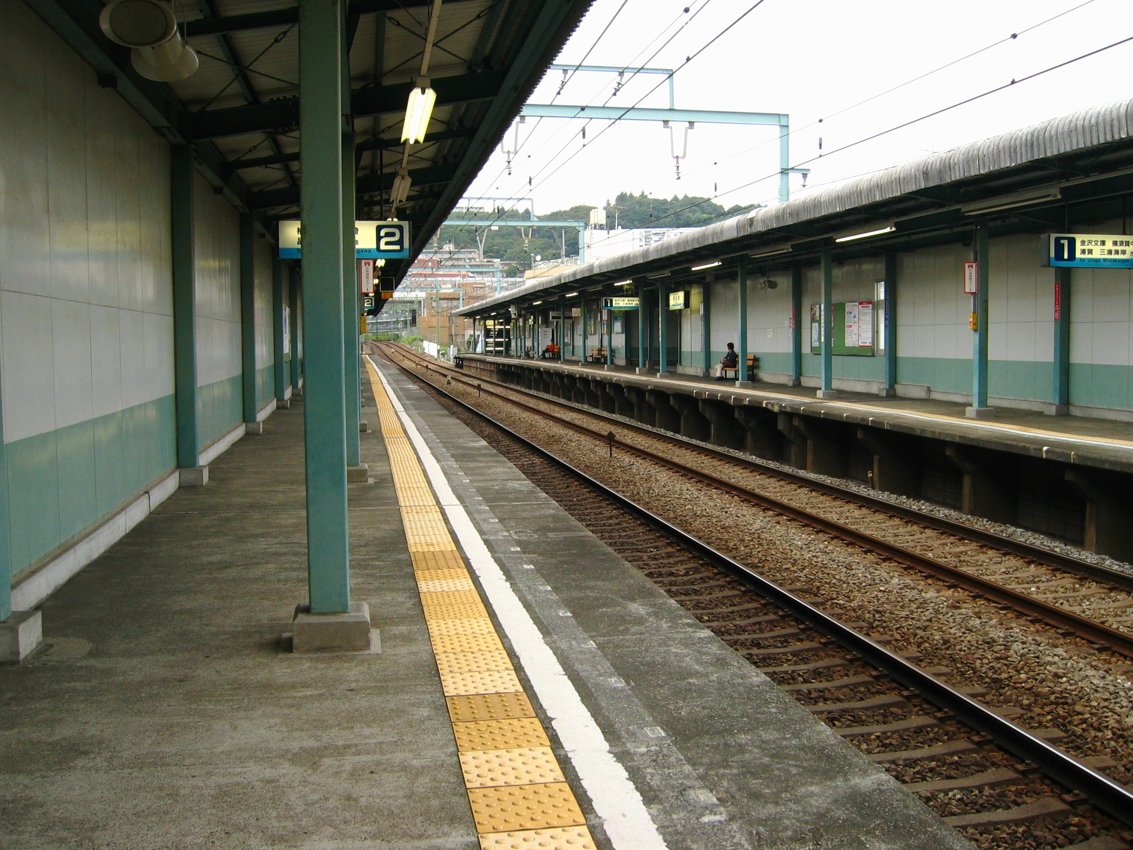 Keikyu Main Line, Keikyu-Byōbugaura Station platform (Kanagawa, Japan)